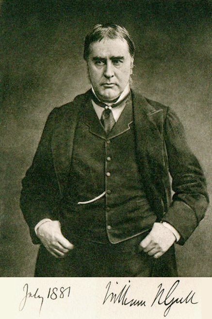 Copperplate engraving of Sir William Withey Gull, with signature and date